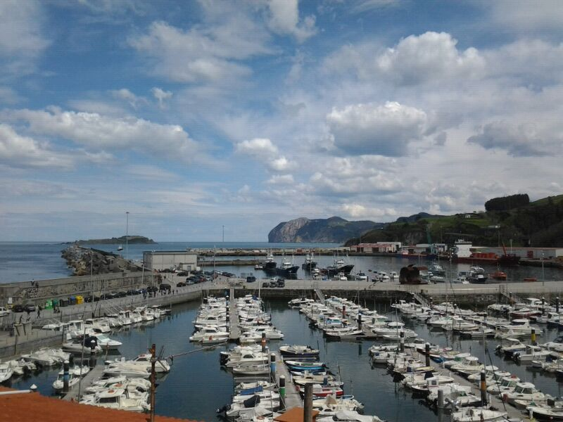 Bermeo´s marina